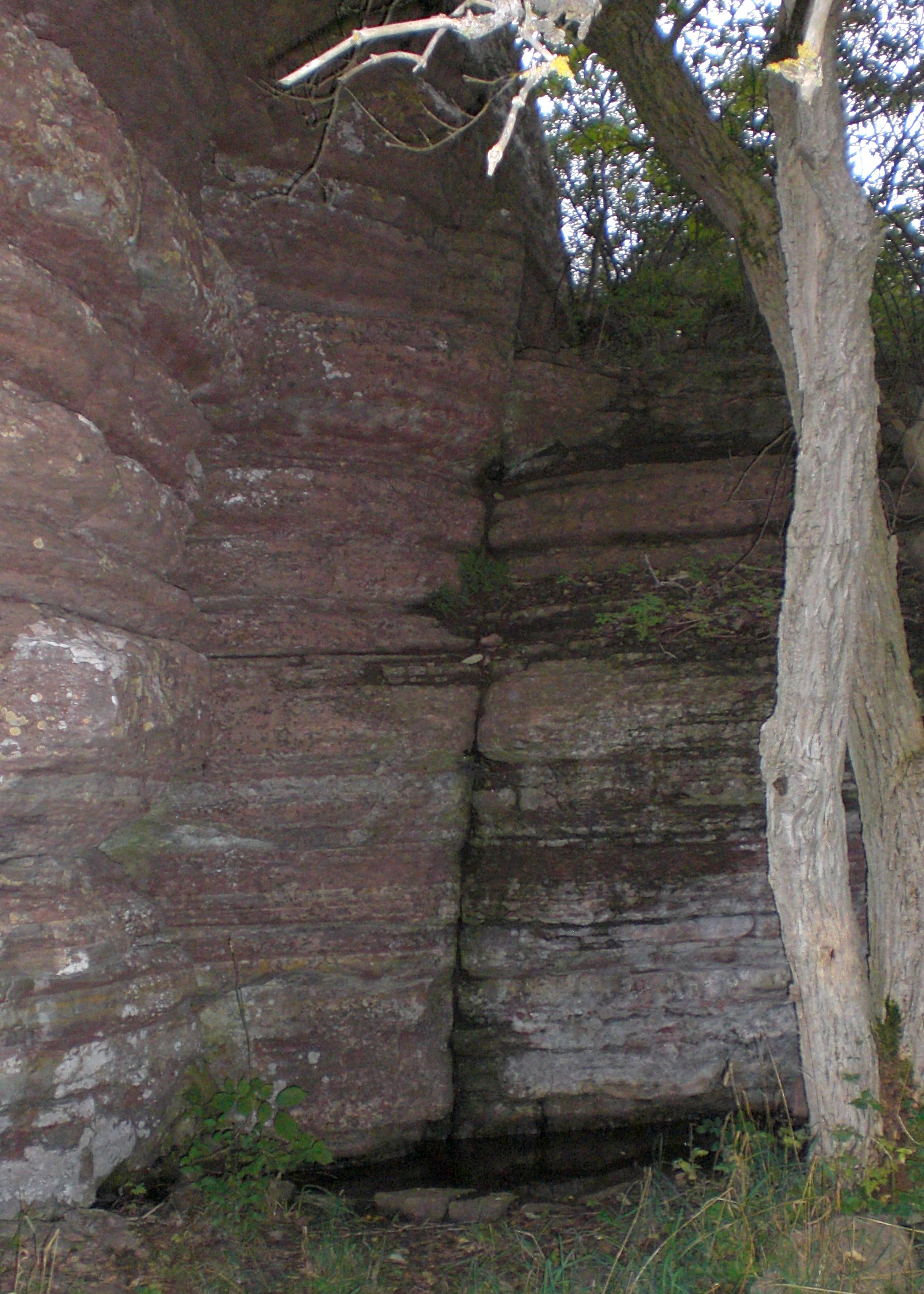 The cliff over Saint Elof's spring between Borgholm and Köpingsvik, Borgholm municipality, Öland, Kalmar county, Sweden.